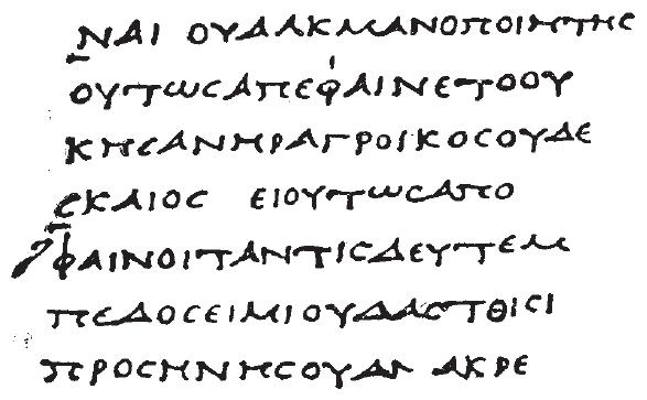 old greek papyrus